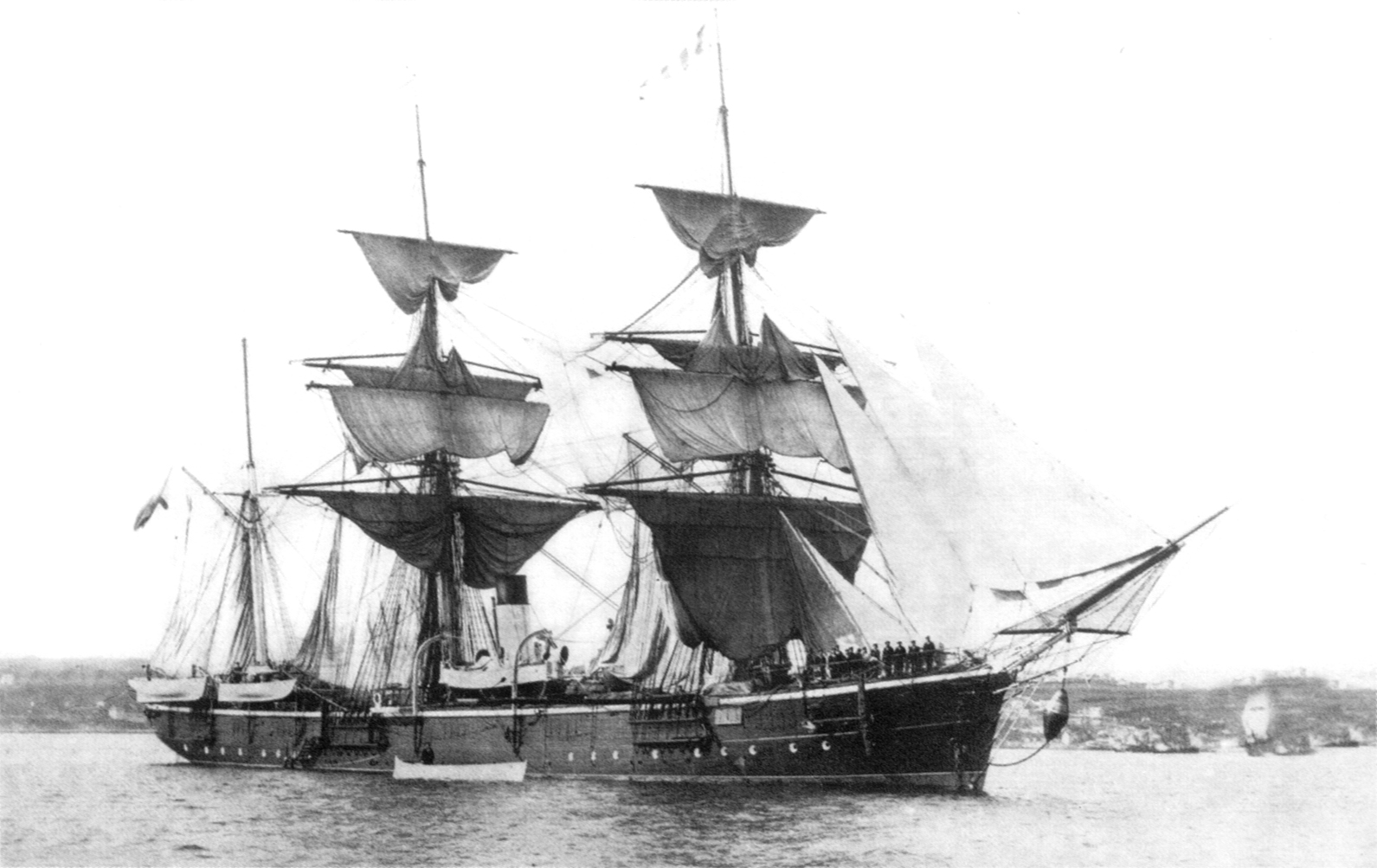 Imperial Russian clipper Vestnik.